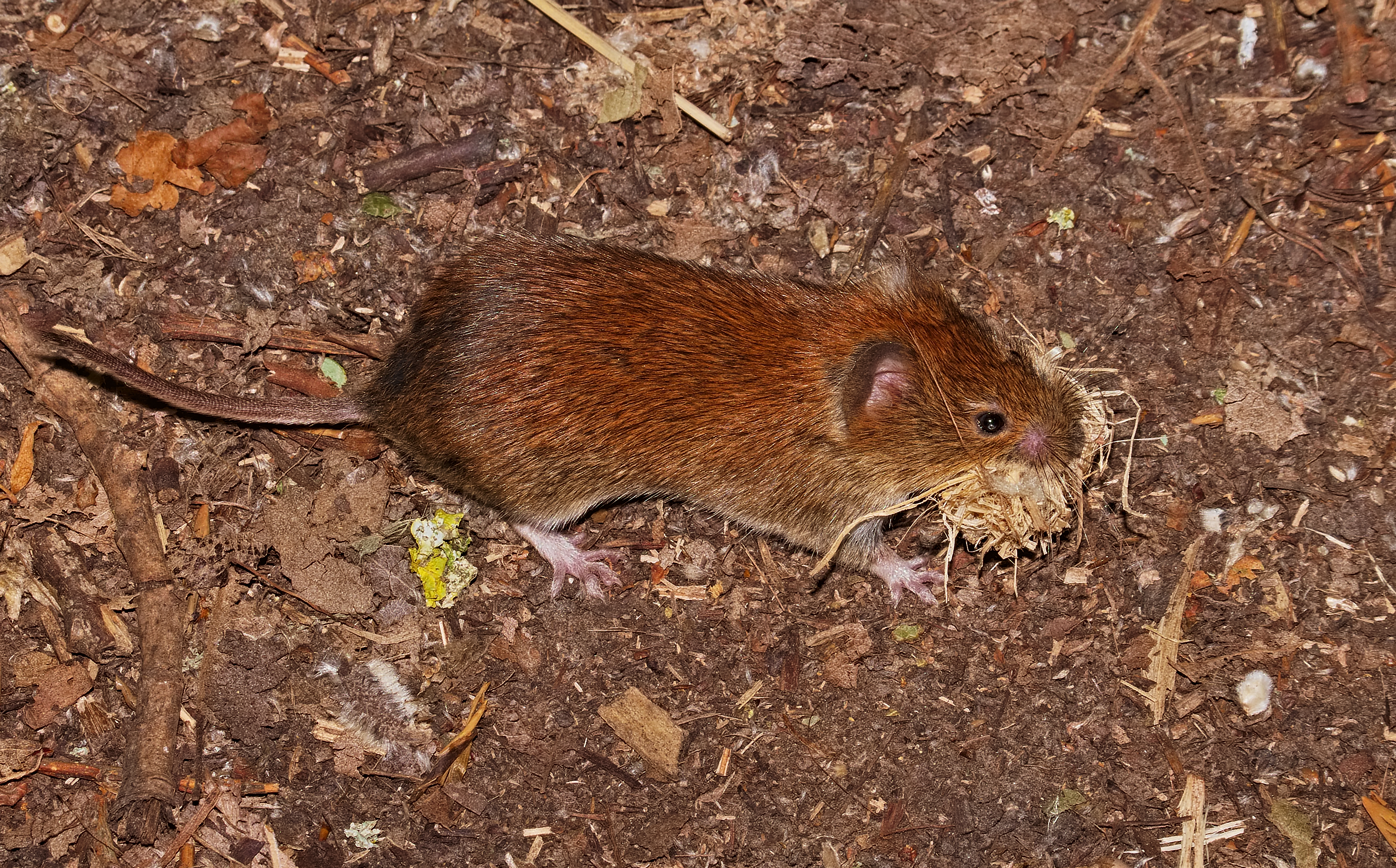 Bank vole - Myodes glareolus. Taken by the Reinheimer Teich in Reinheim, Hesse, Germany.